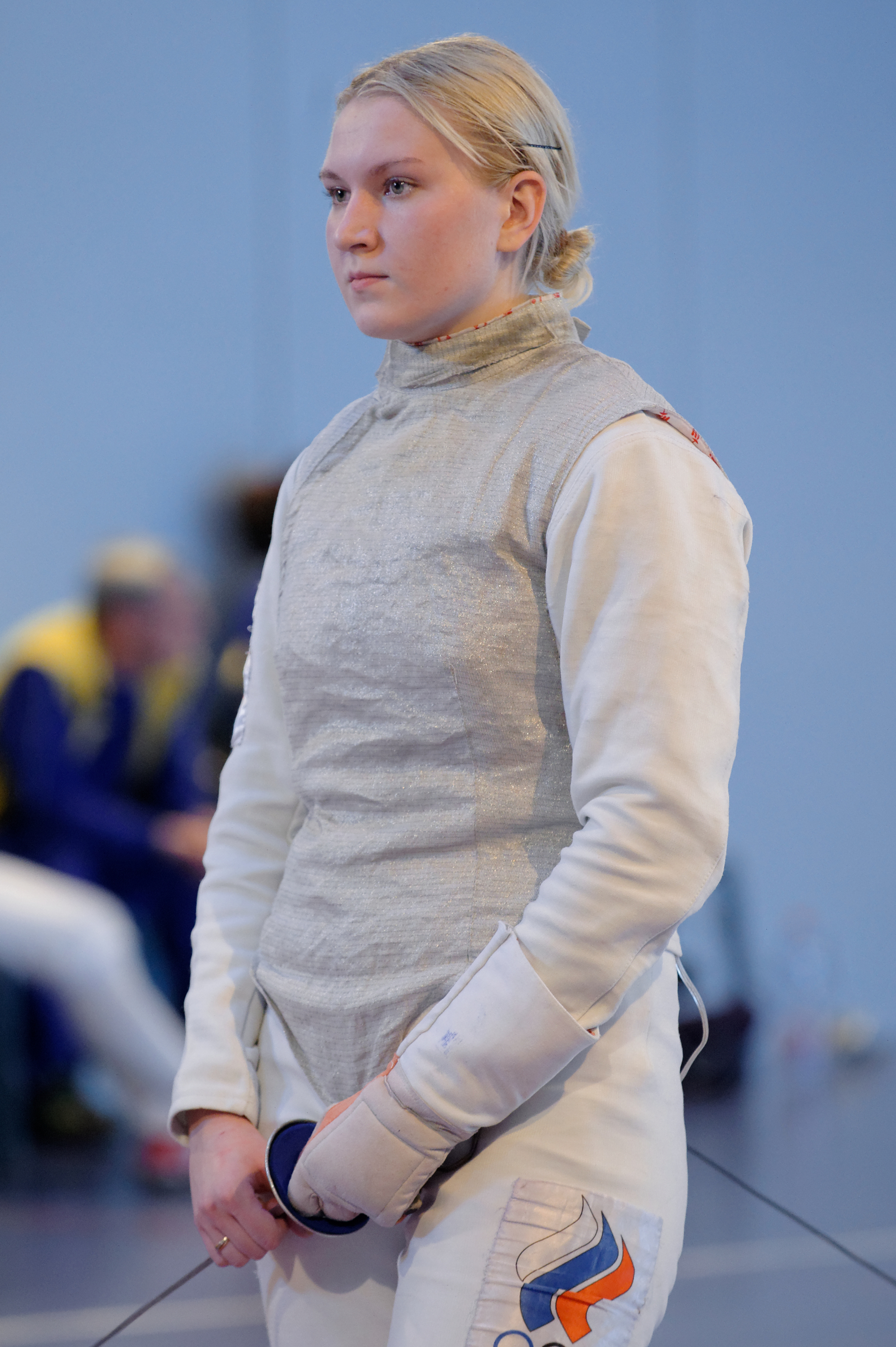 Russia's Viktoria Alexeeva at the Saint-Maur Women's Foil World Cup.